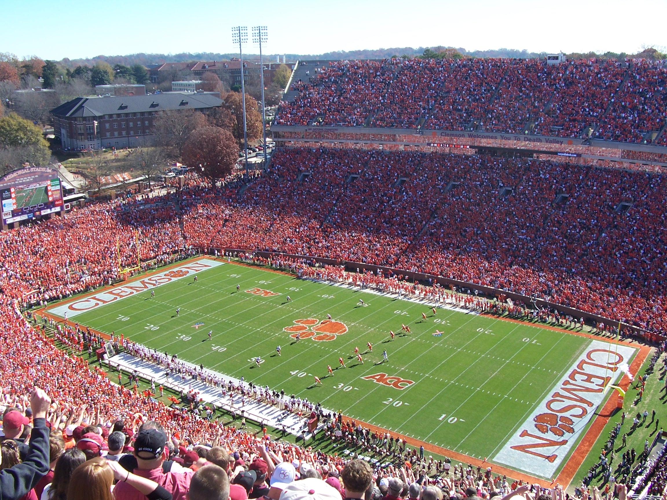 This picture was taken during the Carolina-Clemson game on November 25, 2006, which the Gamecocks won 31-28, by Randall Stewart. Notice the large number of empty seats in the upper deck, despite this game being Clemson's biggest rivalry of the season. The announced attendance at the game was 83,500, 102% of Memorial Stadium's capacity.